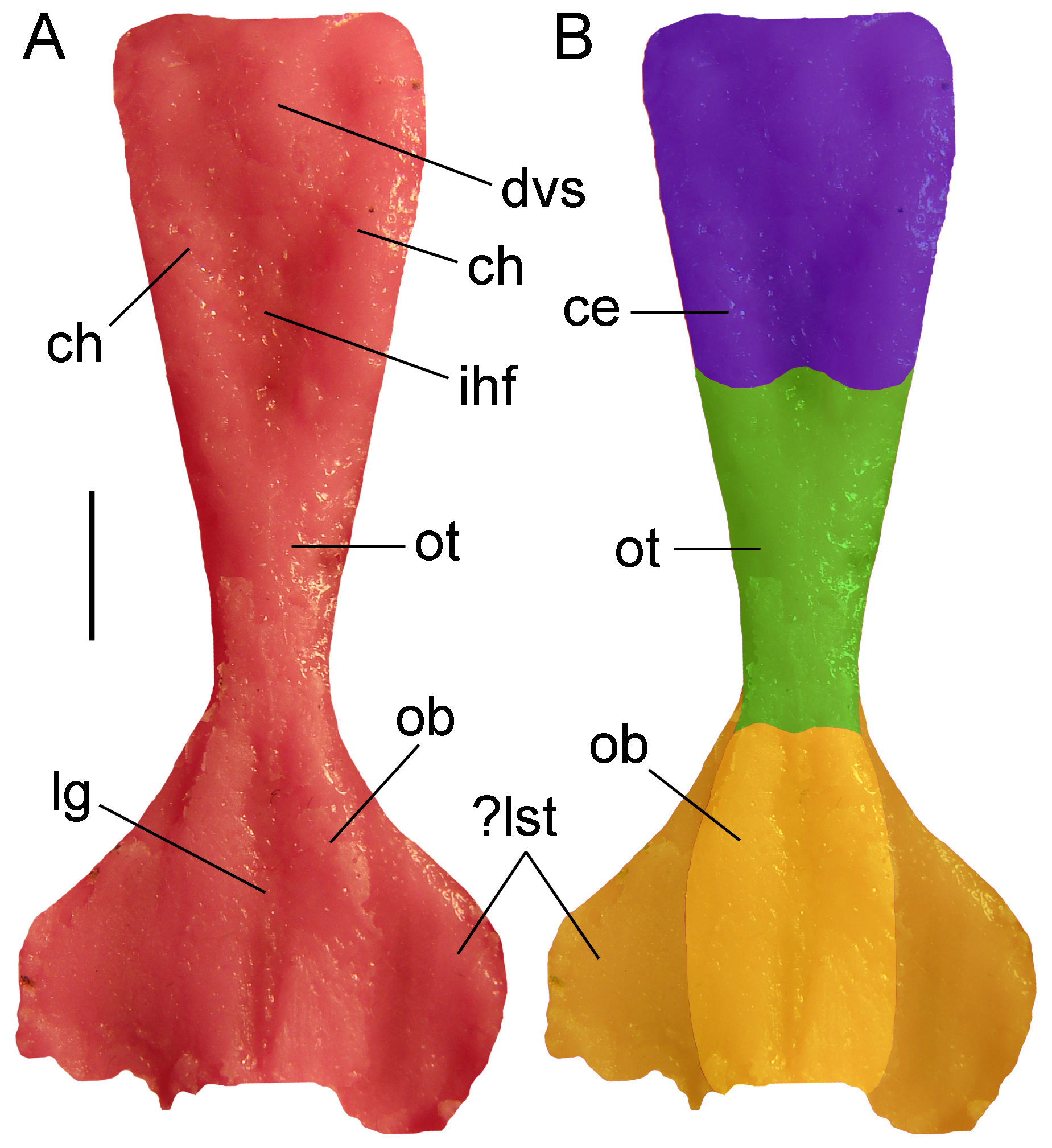 Figure 8. Latex cranial endocast of type specimen (UTGD 54655) of Tasmaniosaurus triassicus. A, latex endocast and B, interpretation of telencephalon areas in dorsal views. Cerebrum (blue), olfactory tract (green), olfactory bulbs (light yellow), and indeterminate soft tissue or lateral portion of the olfactory bulbs (dark yellow). Abbreviations: ?lst; lateral soft tissue or lateral portion of olfactory bulb; ce, cerebrum; ch, cerebral hemisphere; dvs, dural venous sinus; ihf, interhemispheral fissure; lg, longitudinal groove; ob, olfactory bulb; ot, olfactory tract. Scale bar equals 5 mm.